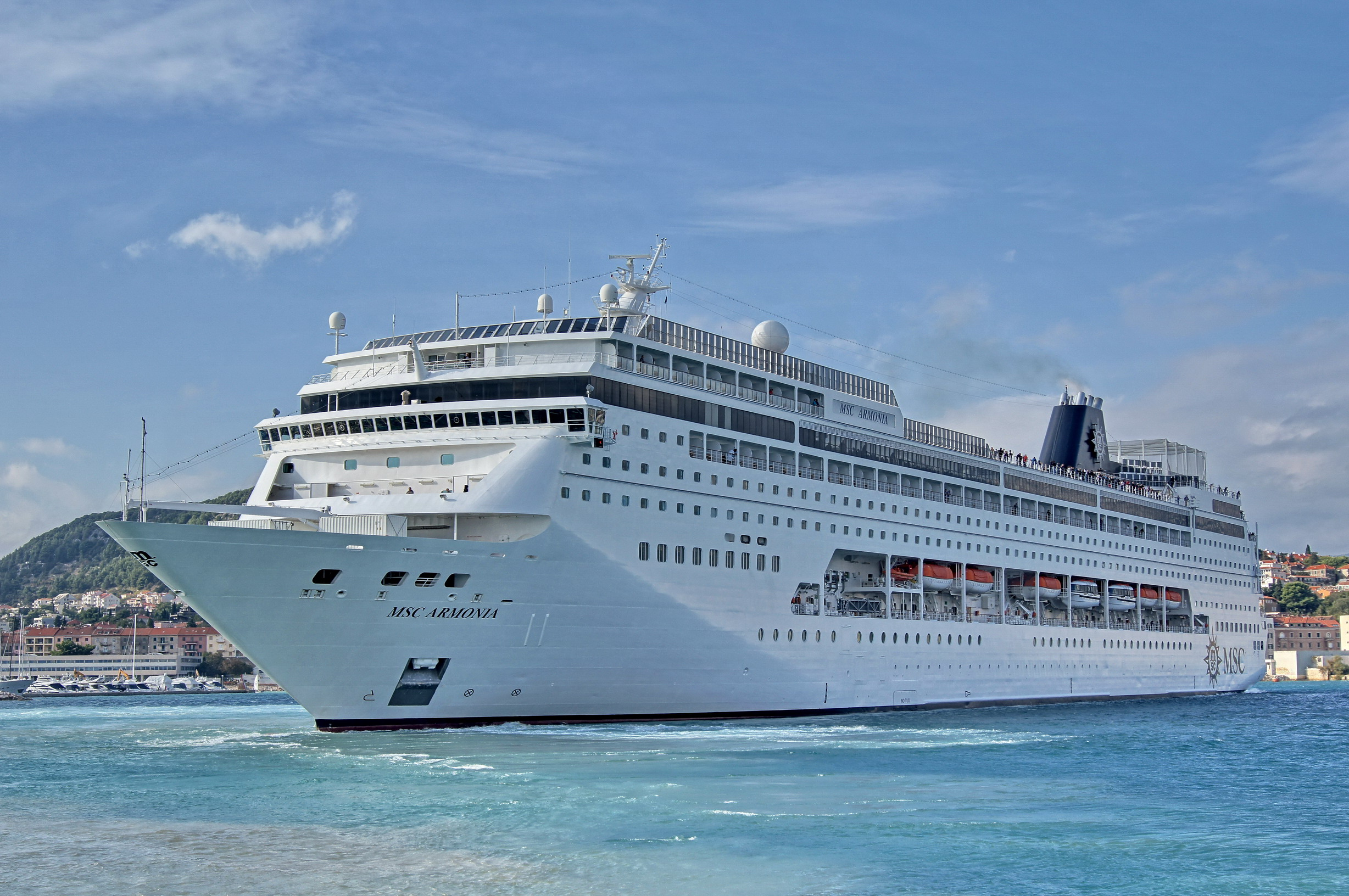 MSC Armonia (ship, 2001) IMO 9210141; in Split, 2011-10-25